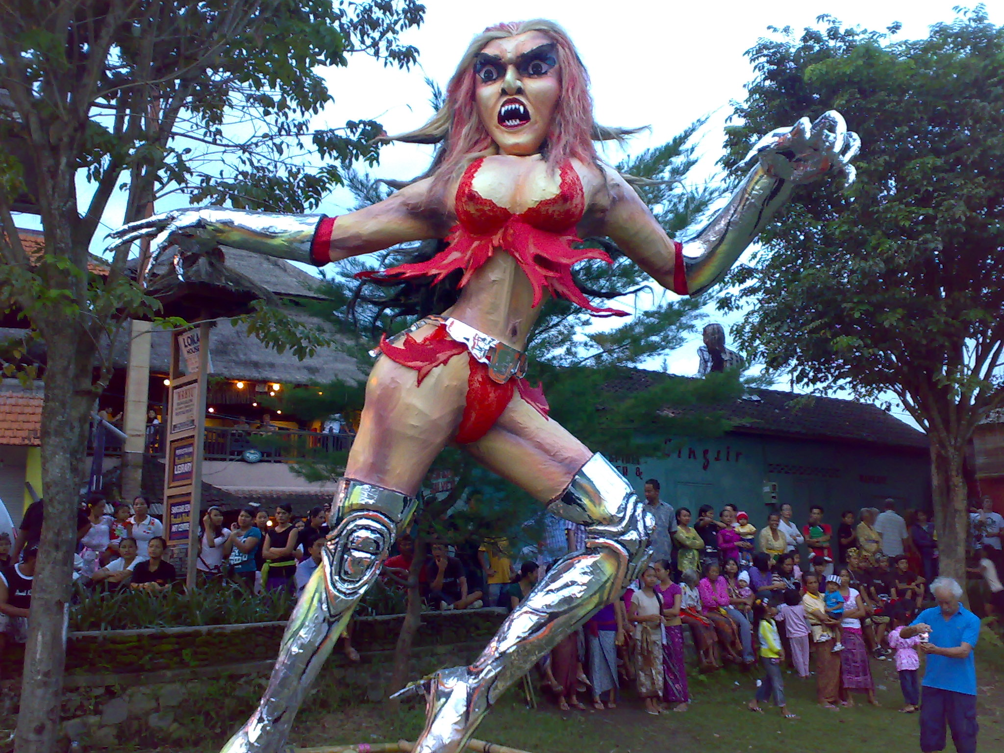 An Ogoh-Ogoh of a tourist in Ubud, Bali; March 7, 2008.